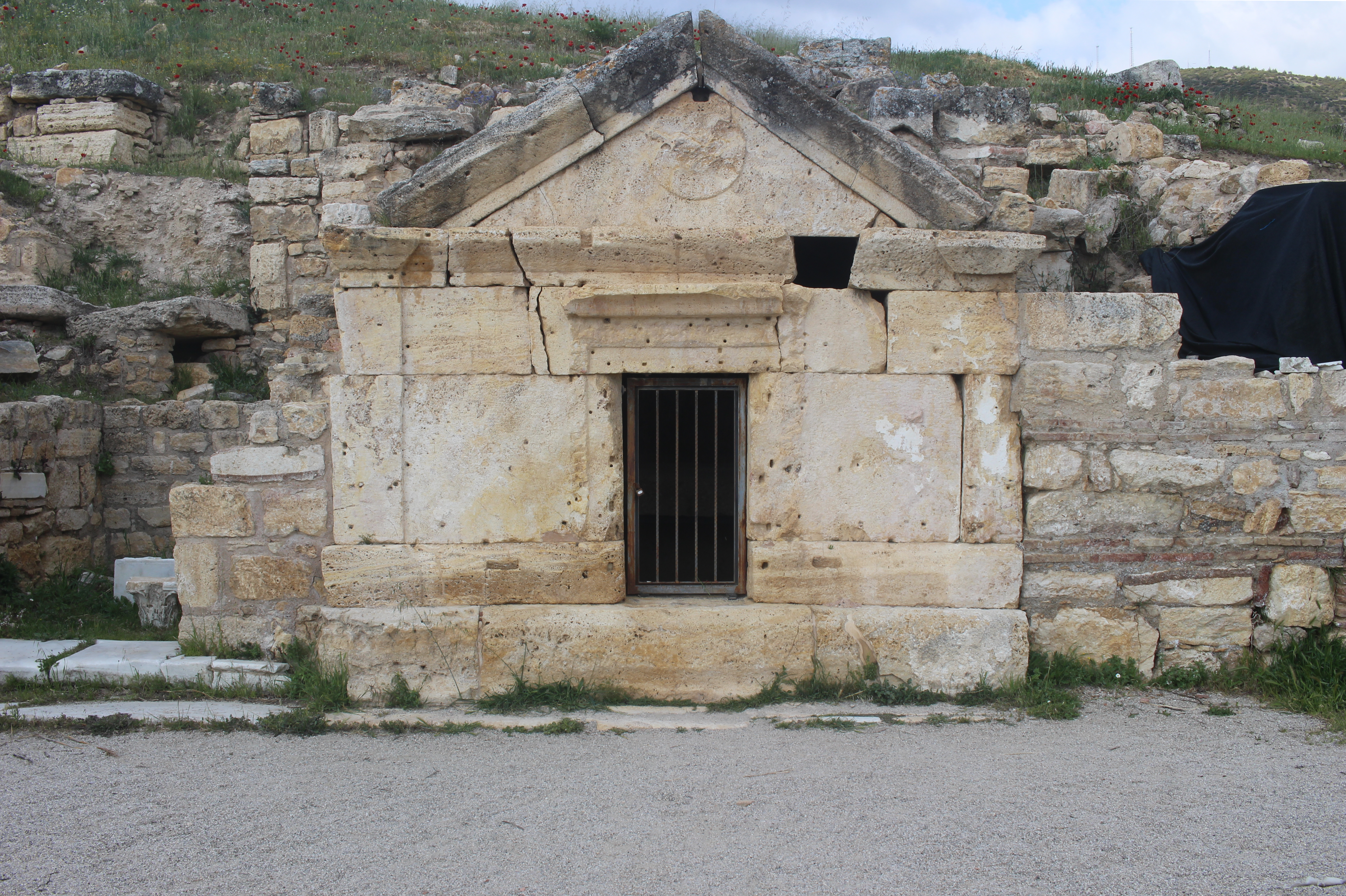 Francesco D’Andria found this first-century Roman tomb that he believes once held the remains of the Philip the Apostle.